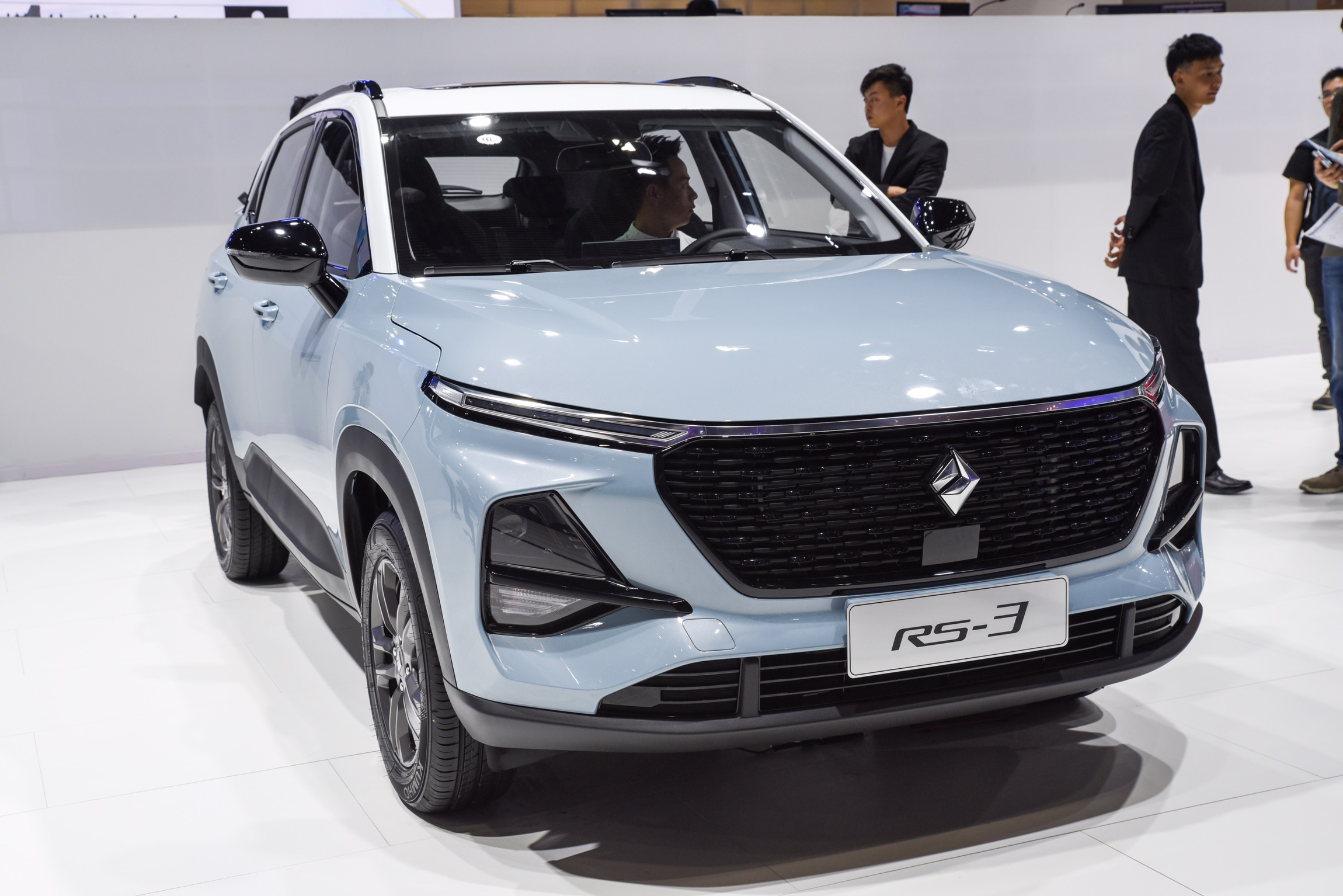 Baojun RS-3 during the 2019 Guangzhou Auto Show